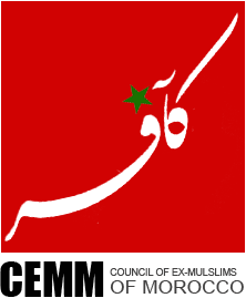 Logo of the Council of Ex-Muslims of Morocco (CEMM). تۆرکجه: مجلس المسلمين السابقين بالمغرب